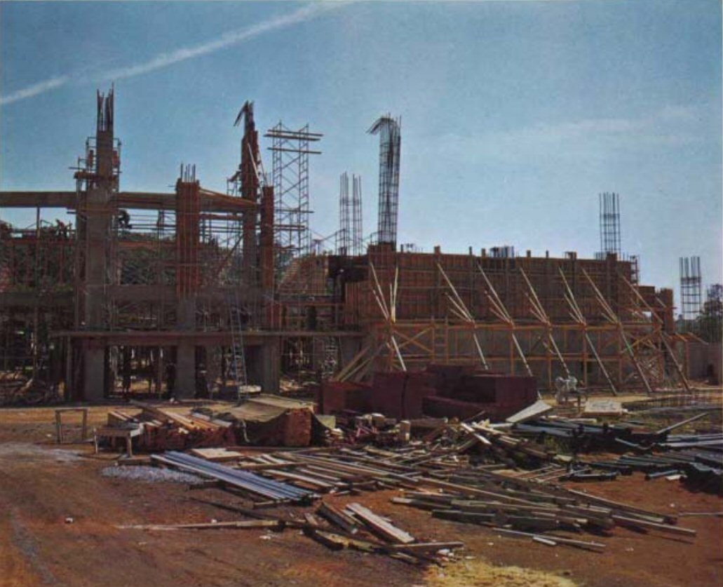 Lane Stadium under construction. Ground was broken on April 1, 1964 and the stadium opened on September 24, 1965.